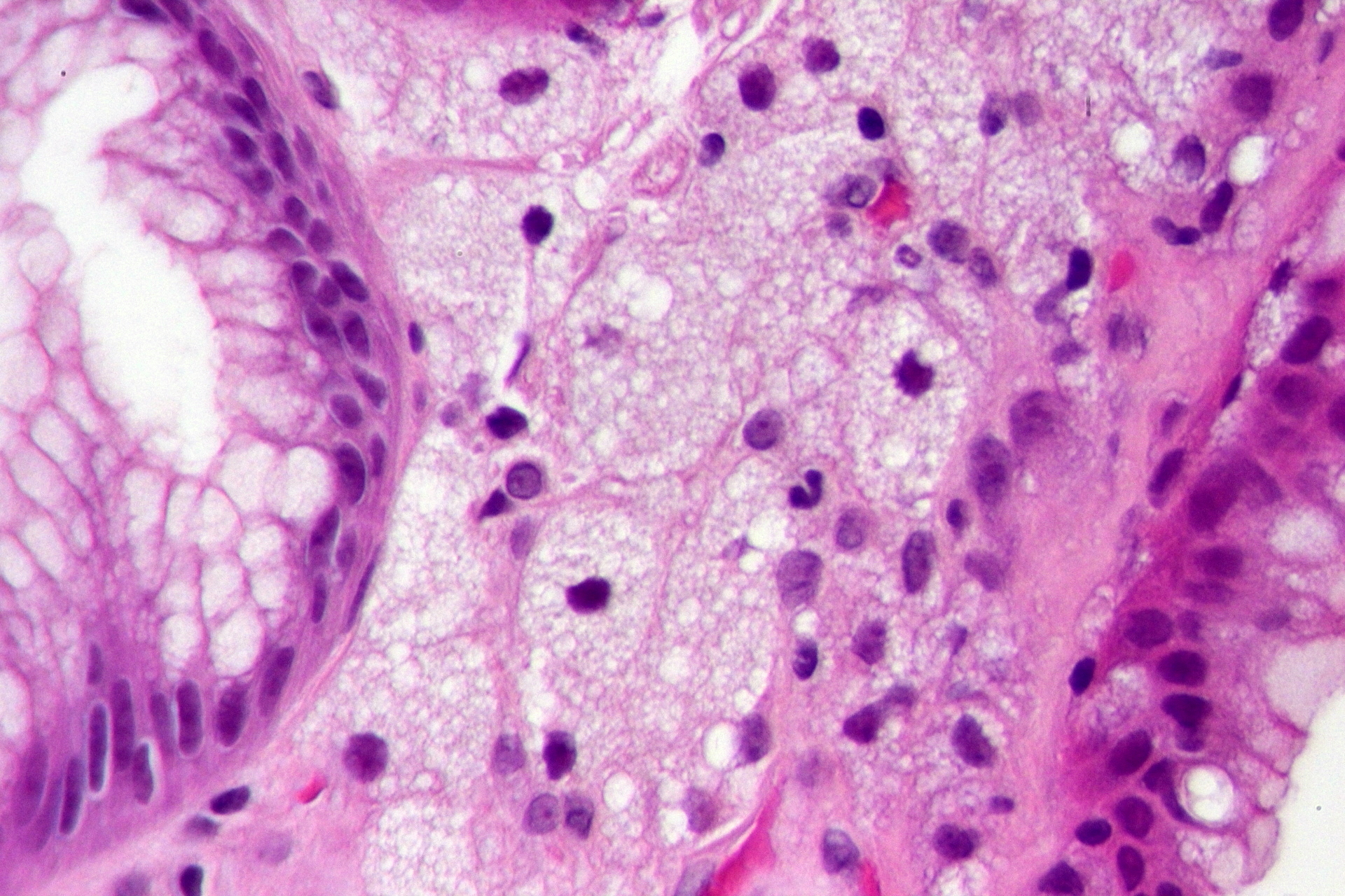 Gastric Xanthelasma with typical aggregates of CD68 positive macrophages. HE stain.